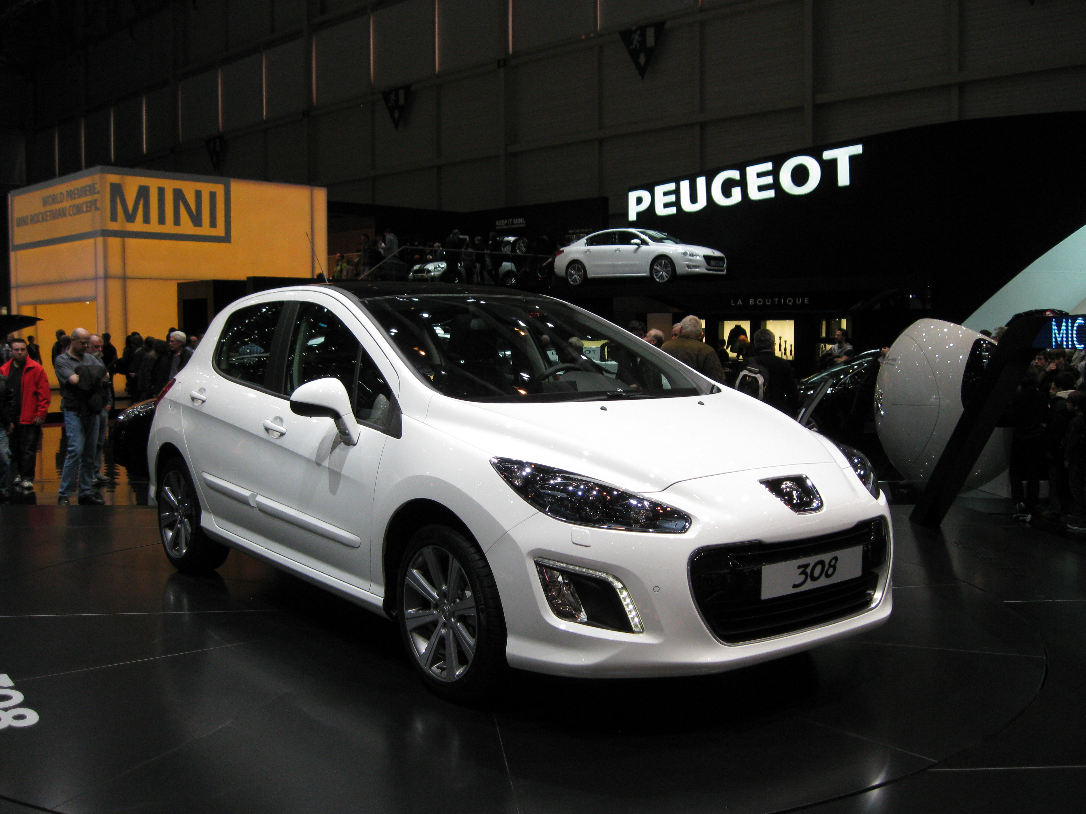 Geneva Motor Show 2011